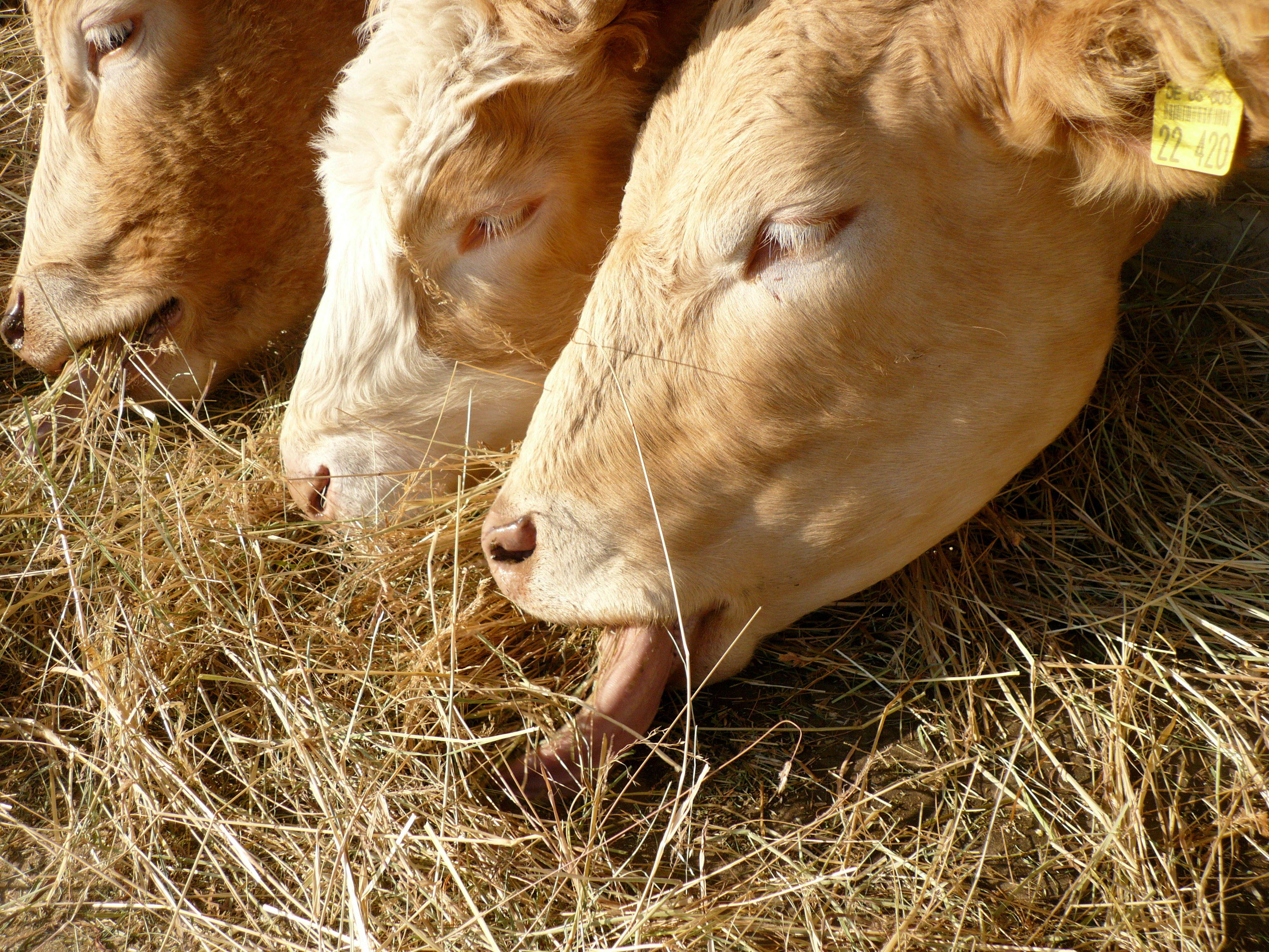 German Cows eating hay